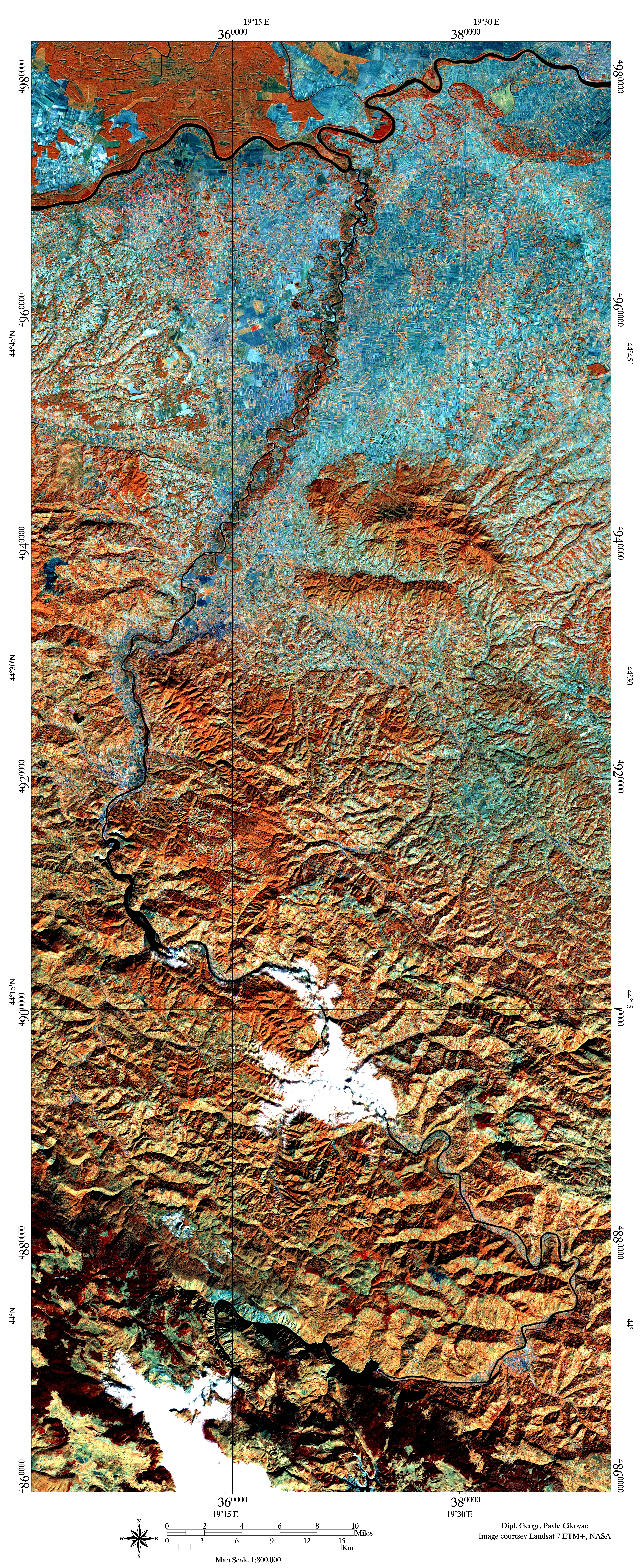 Course of the upper Drina catchment in Serbia and Bosnia